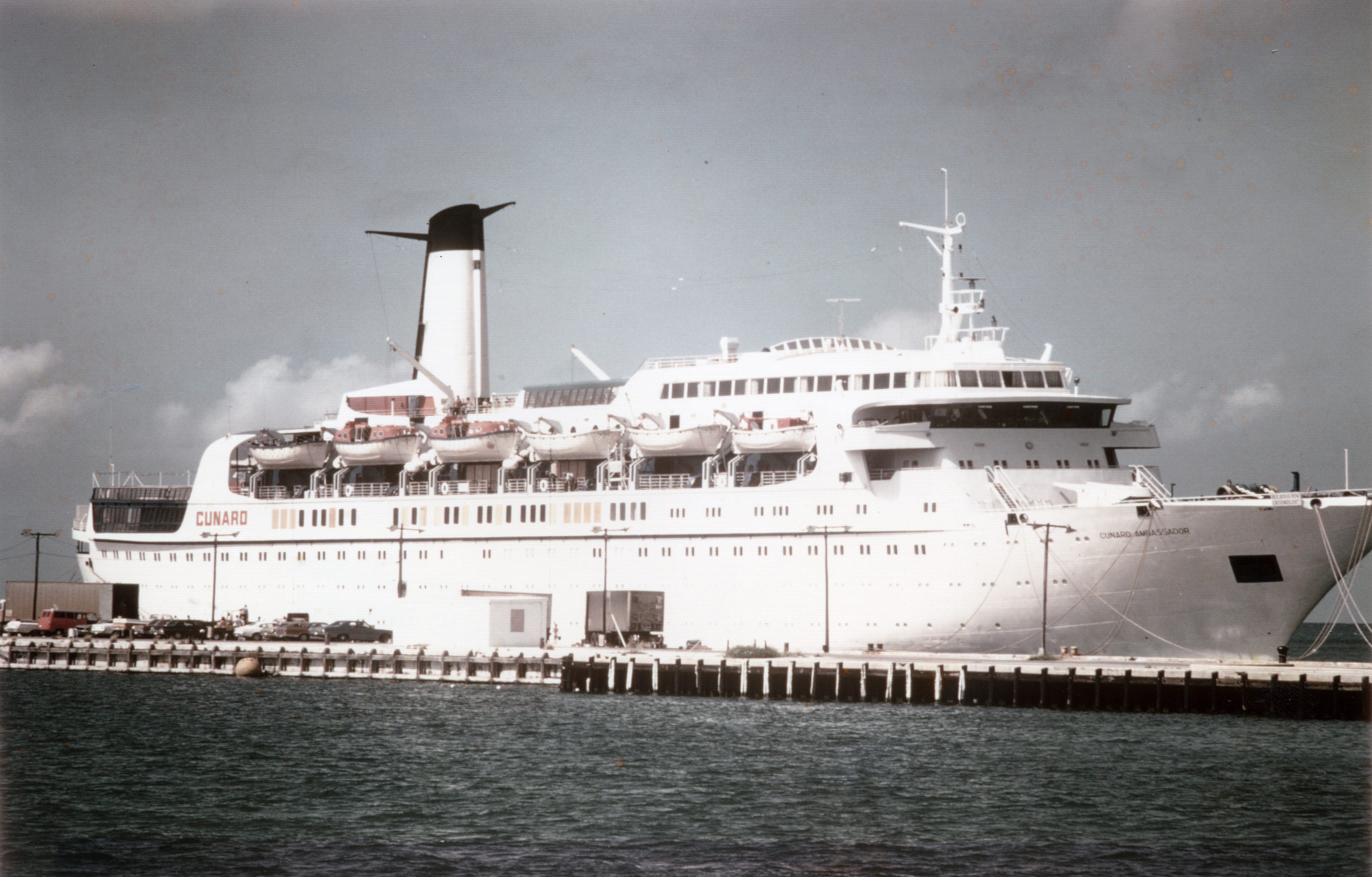 The Cunard Ambassador moored at Key West after it burned at sea in September 1974. Photo from the Art and Historical Society Collection.